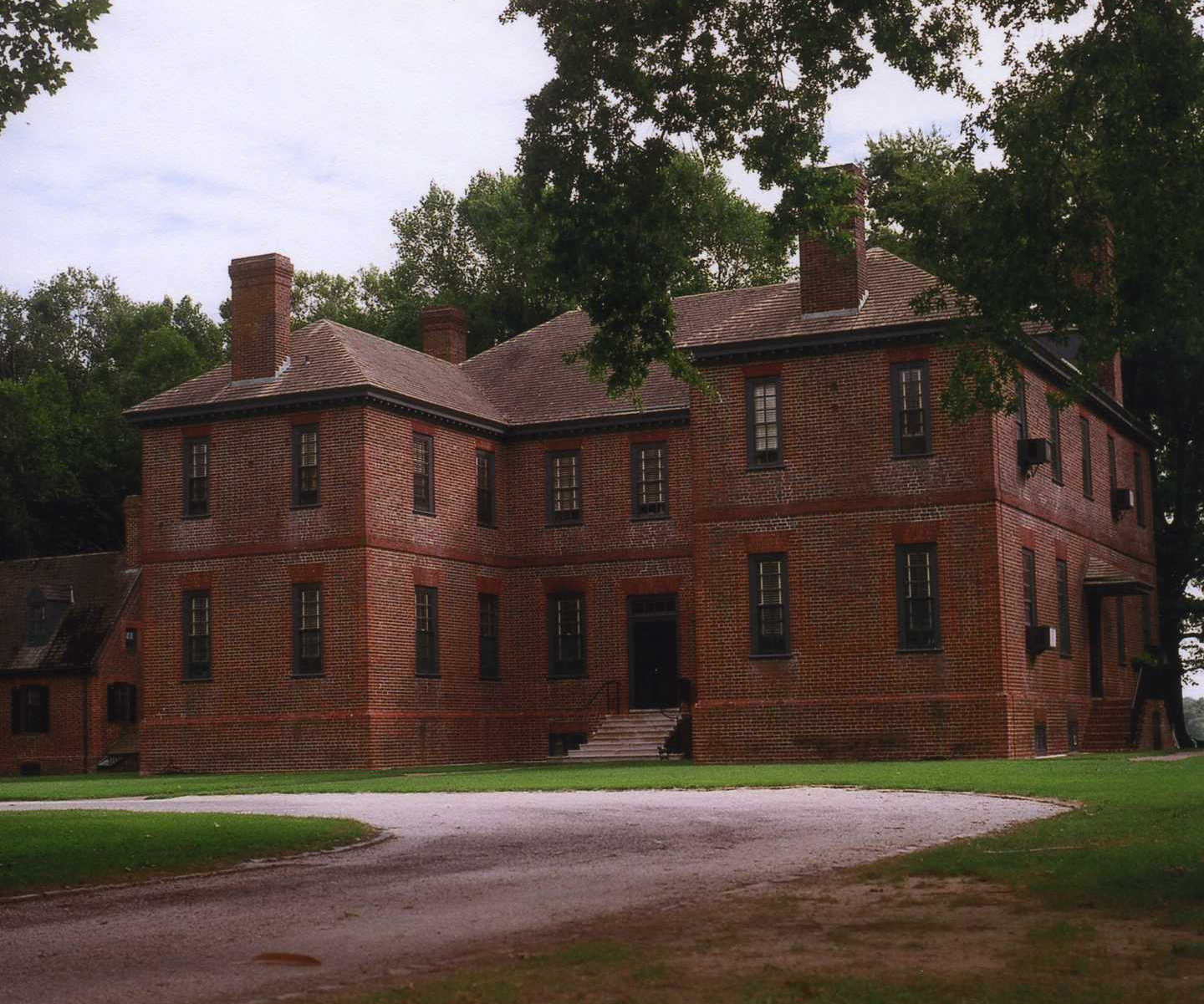 Tracey Carlton